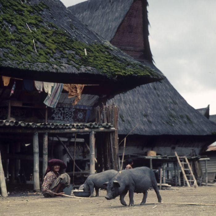 Pigs in a Karo Batak village